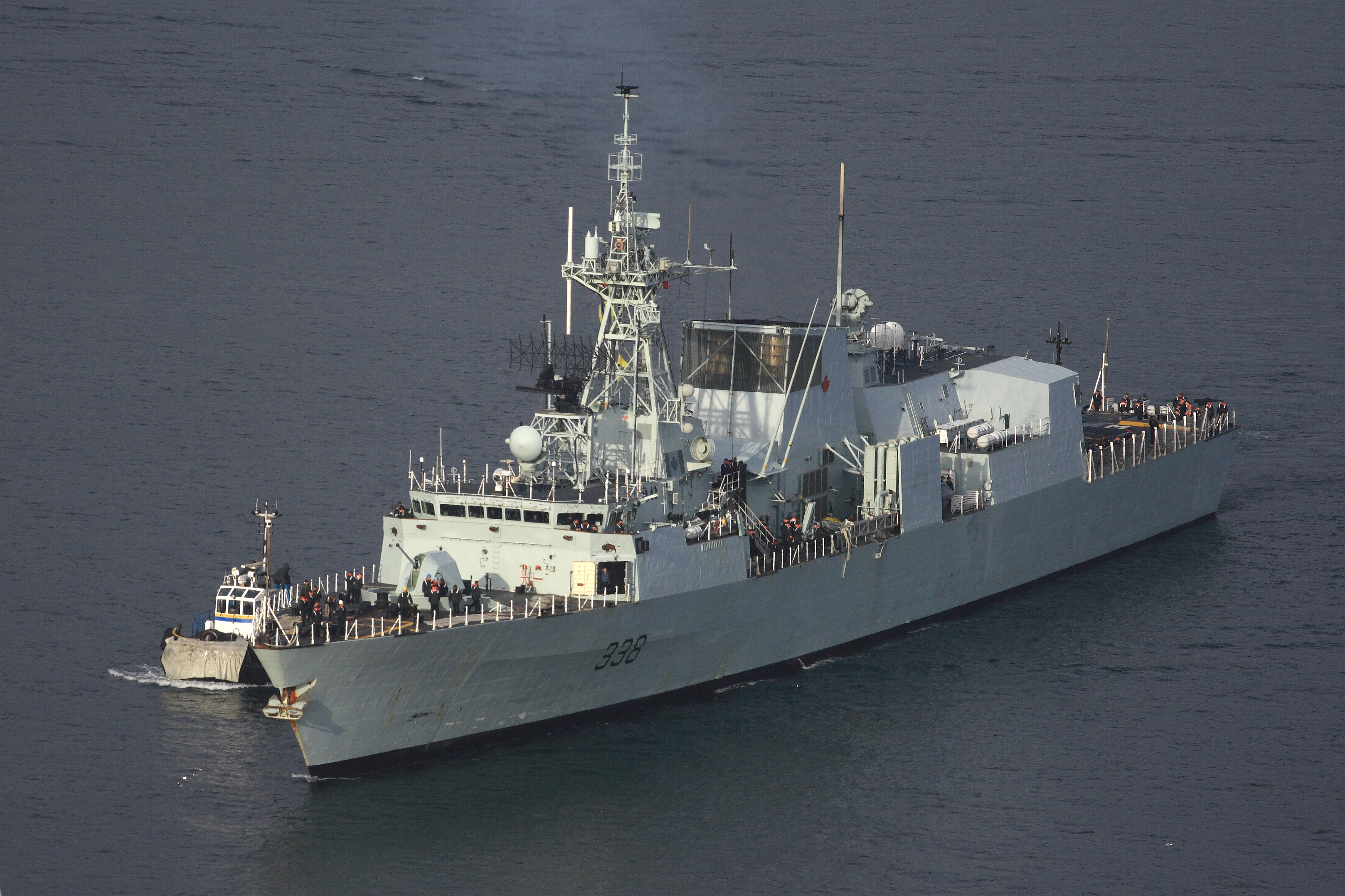 HMCS Winnipeg (FFH338 - Halifax class frigate), Royal Canadian Navy, photo taken in Vancouver, BC.